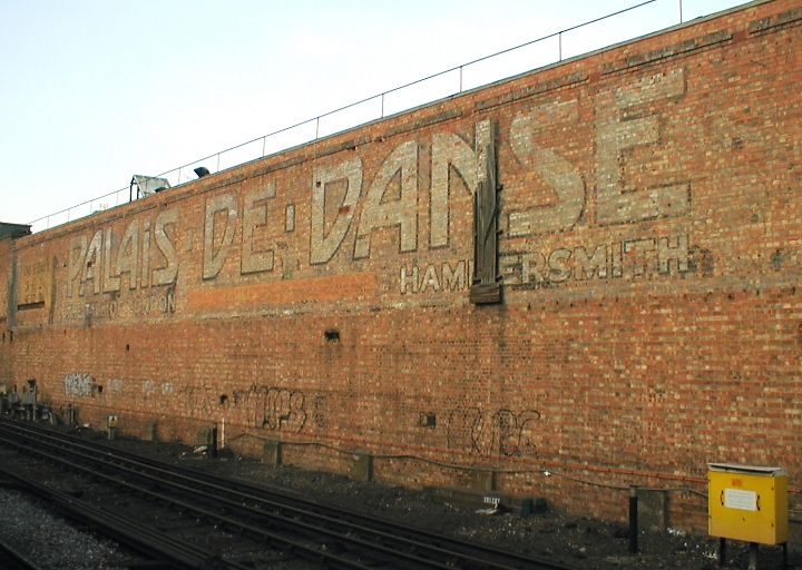 An old hand-painted advertising sign for the Hammersmith Palais de Danse on its surviving rear boundary wall, as could be seen in 2004 from the platform of the Hammersmith station, on the Circle and Hammersmith & City lines, of the London Underground. The image was taken with an Olympus Camedia D-230.